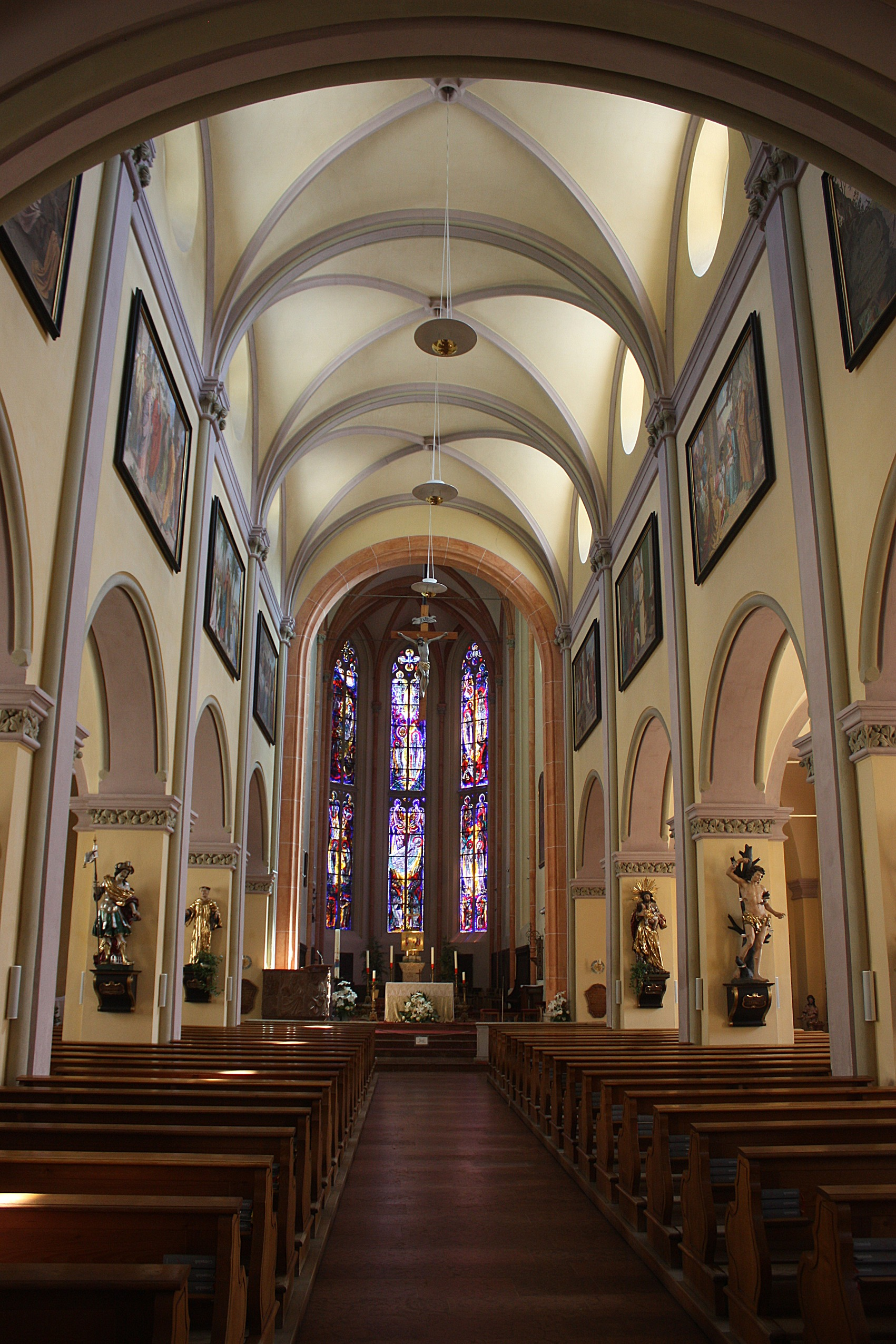 Radstadt, Assumption Day Church, inner view